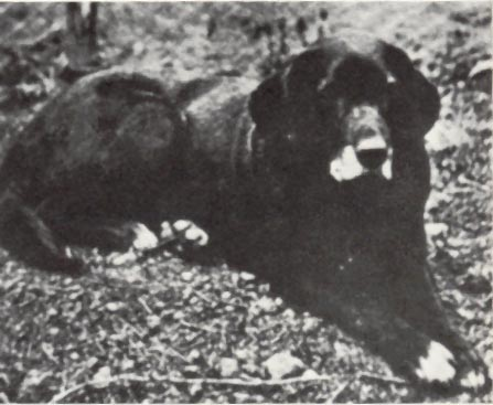 Nell (b.1856), a Labrador Retriever belonging to 11th Earl of Home. First known photograph of breed taken 1867.